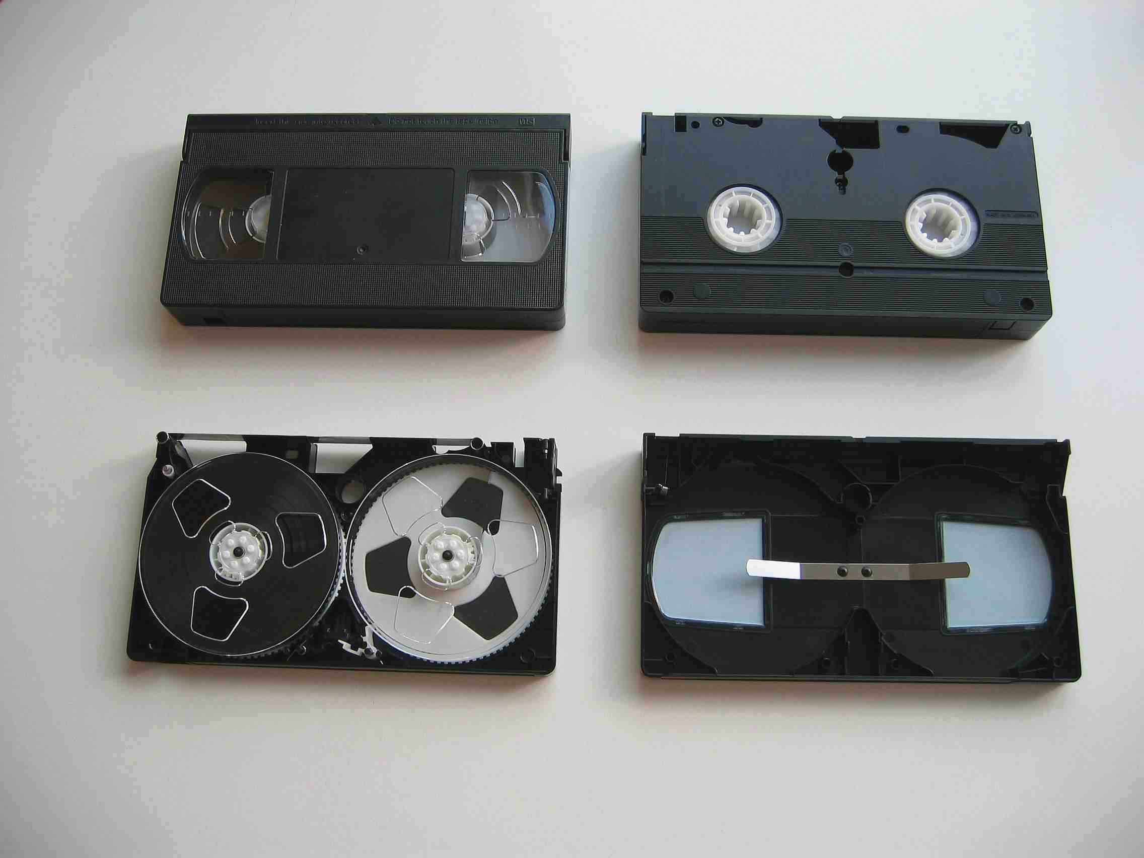 VHS cassette